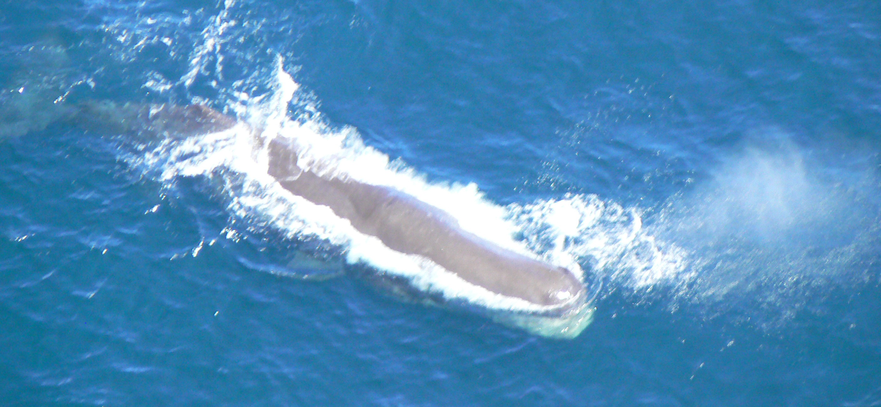 Sperm whale from above